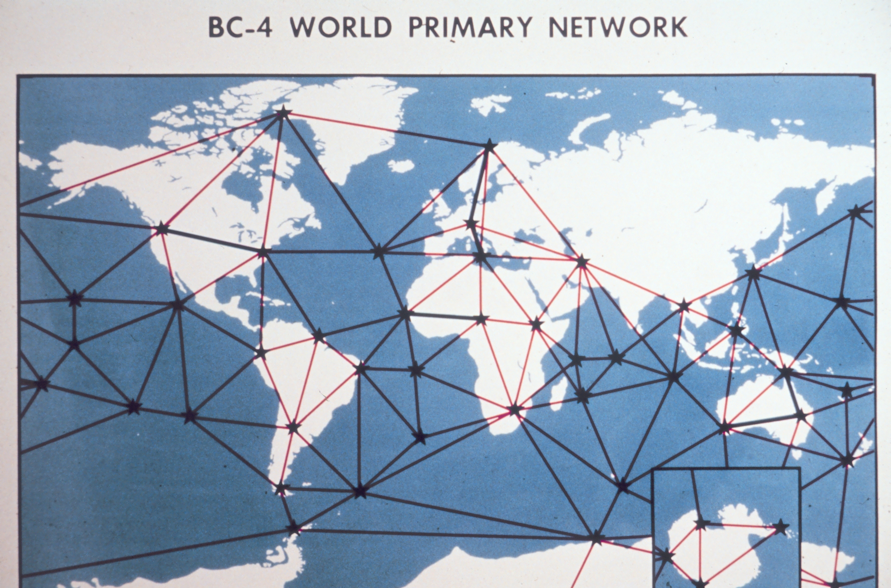 Map of the world with satellite triangulation stations labeled "BC-4 World Primary Network". BC-4 was a type of automatic camera used in satellite geodesy. US stations in Moses Lake, Washington and Beltsville, Maryland ( Image ID geod0009, NOAA's Geodesy Collection.